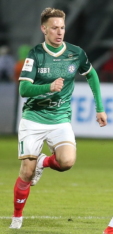 Yevgeni Ushakov with FC KAMAZ Naberezhnye Chelny in a game against FC Spartak Moscow.